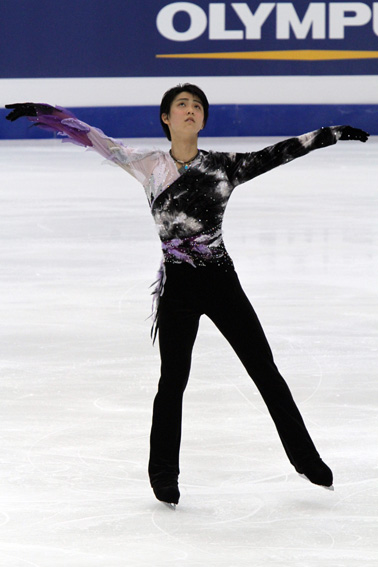 David W. Carmichael